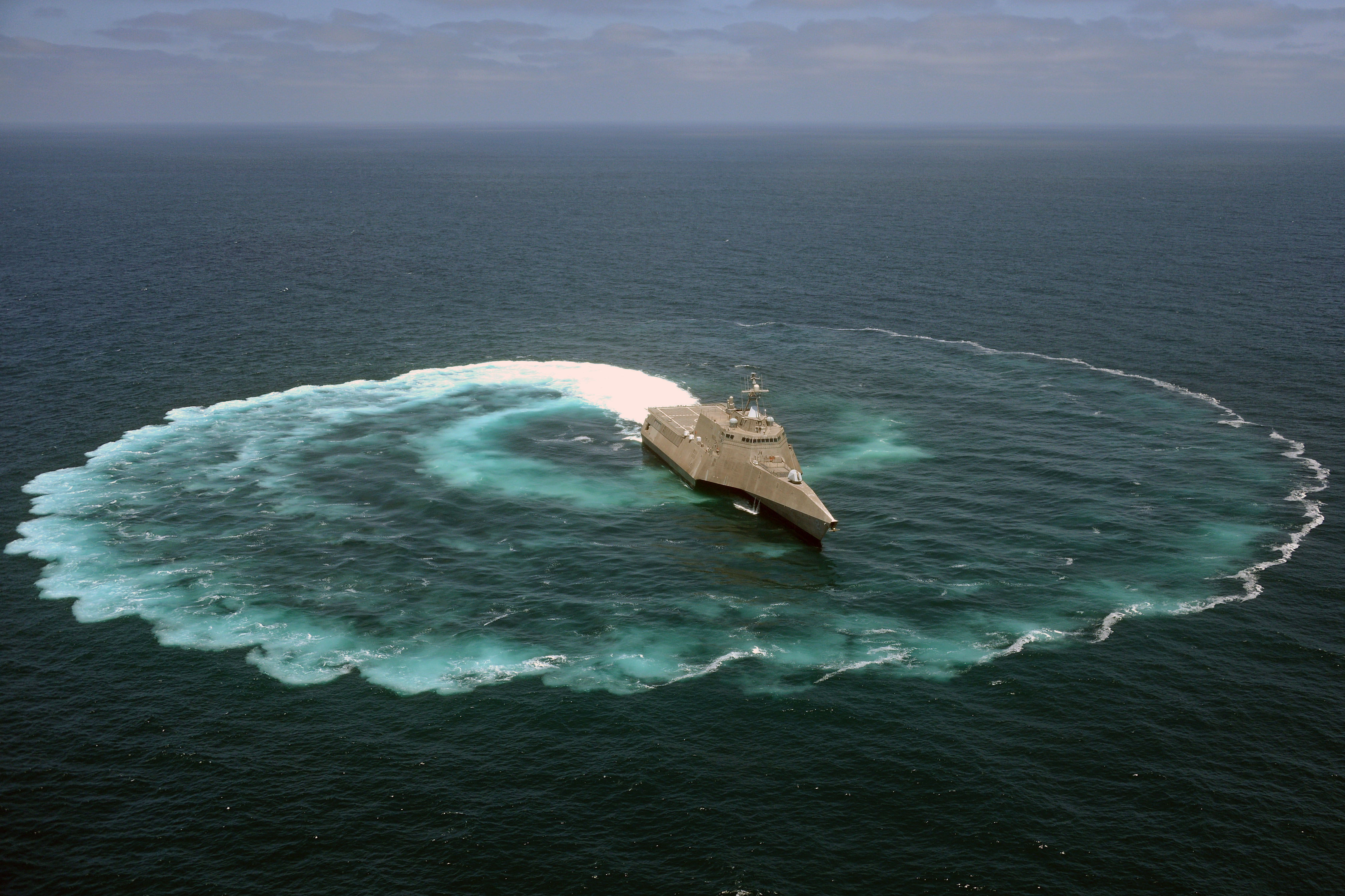 PACIFIC OCEAN (July 18, 2013) The littoral combat ship USS Independence (LCS 2) demonstrates its maneuvering capabilities in the Pacific Ocean off the coast of San Diego. (U.S. Navy photo by Mass Communication Specialist 2nd Class Daniel M. Young/Released) 130718-N-NI474-218